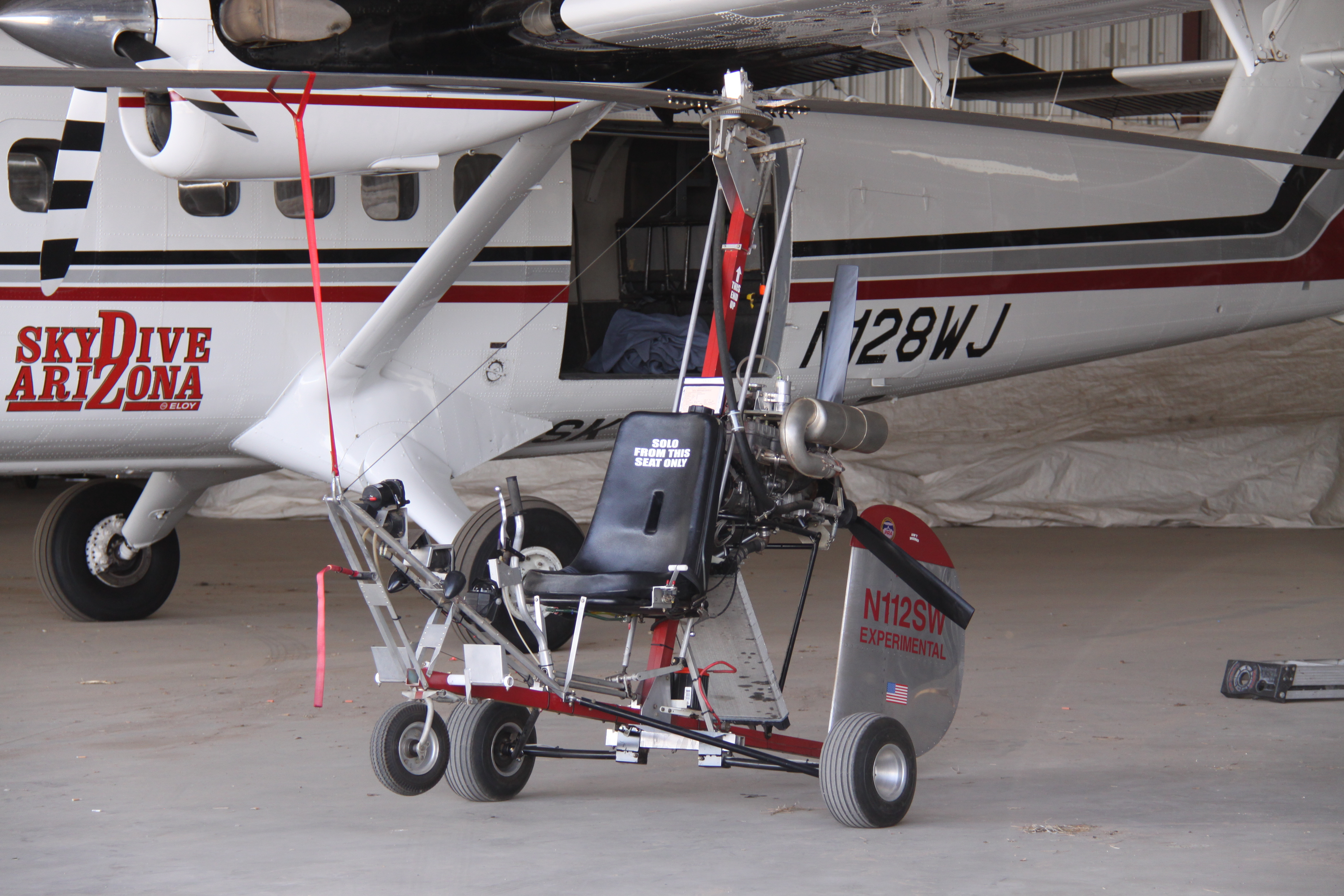 At Eloy Municipal